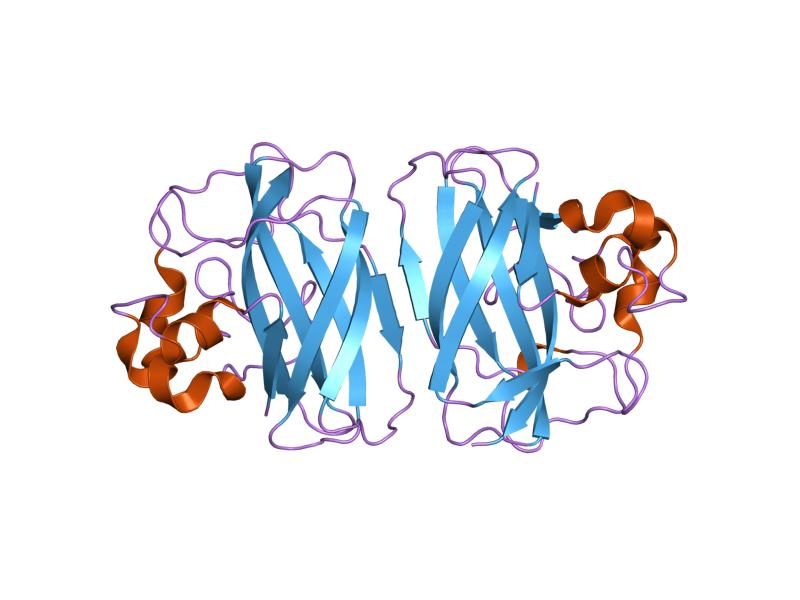 Cartoon representation of the molecular structure of protein registered with 2ben code.